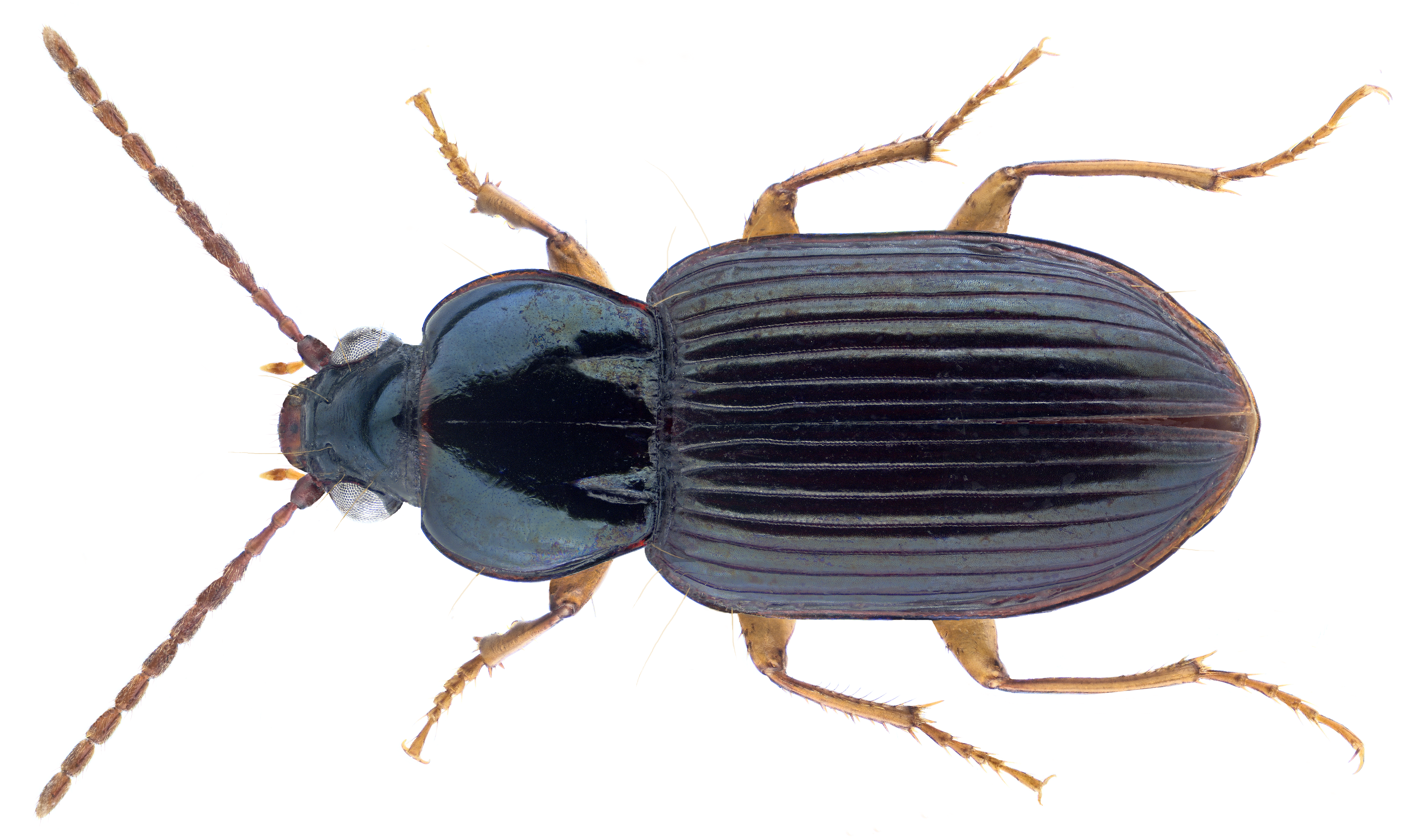 Abacetus azurescens Straneo, 1955 Family: Carabidae Size: 5.8 mm Location: Senegal, M`Bour, environment Club Aldiana leg. U.Schmidt, 8.-20.X.1992; det. M.Baehr, 2017 Photo: U.Schmidt, 2018